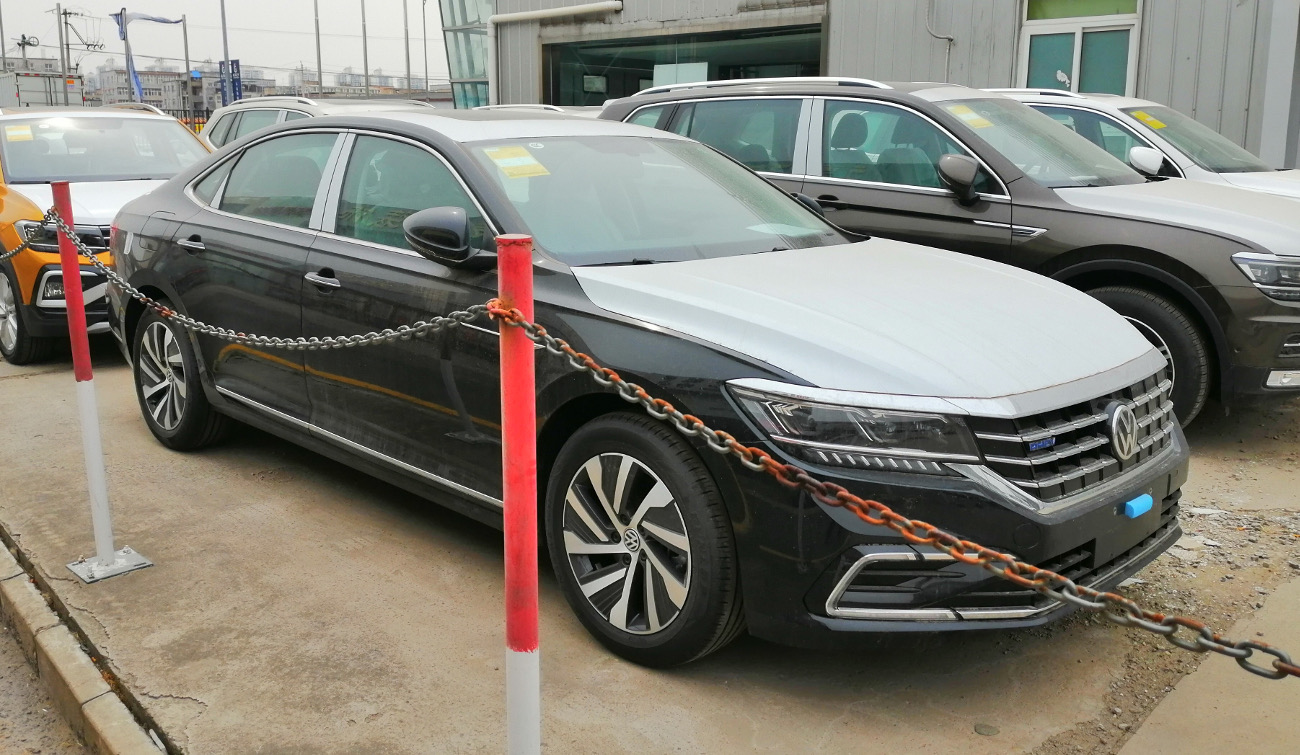 Volkswagen Passat CN III PHEV photographed in Beijing, China.